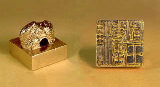 The King of Na gold seal, bestowed by Han Dynasty emperor Guangwu to the ruler of Han's vassal Wana (Japan of the Yayoi period) in 57 AD. It was rediscovered in 1784 in Shikanoshima and is now regarded one of the National Treasures of Japan.